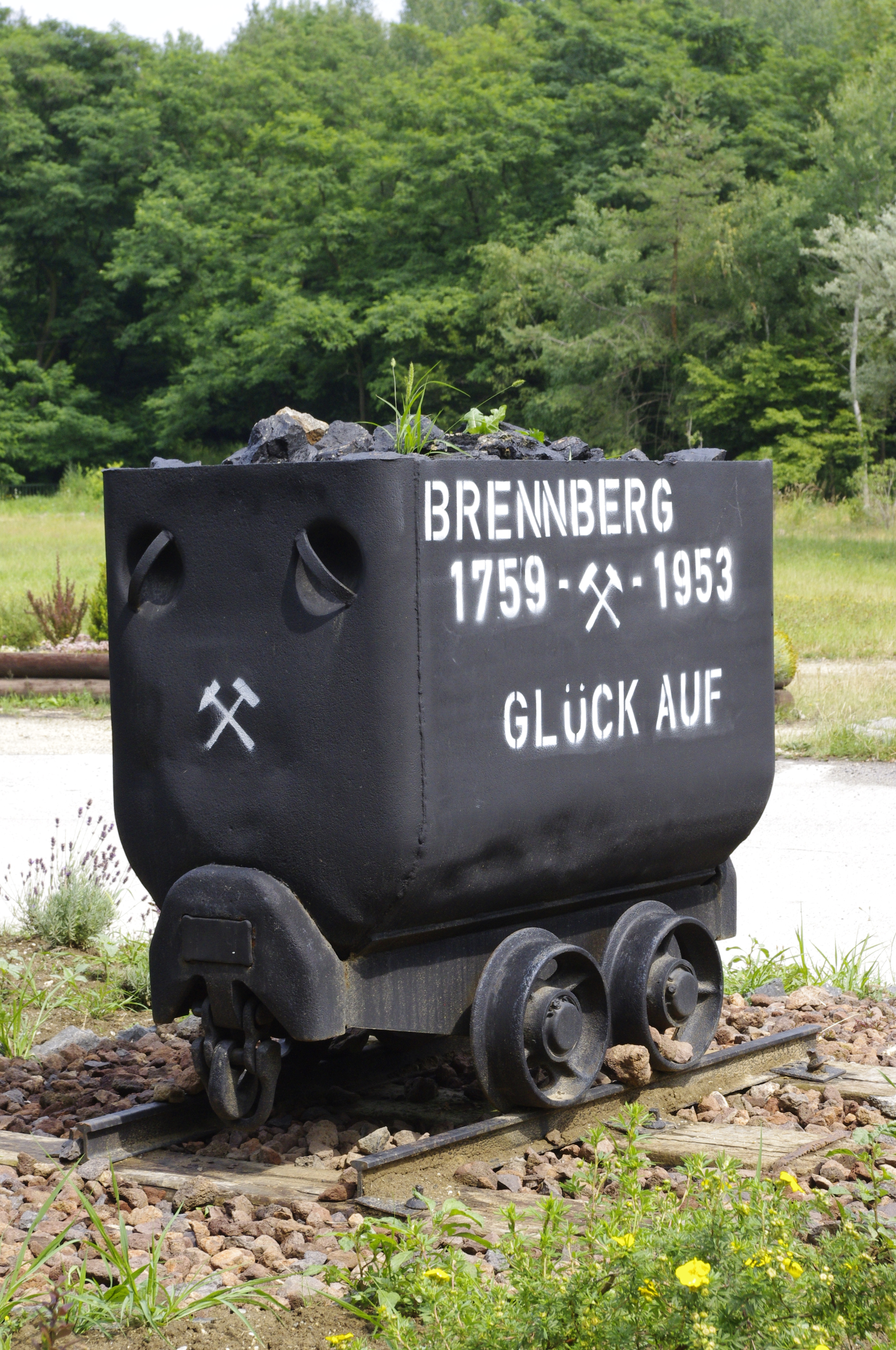 Brennbergbánya, Hungary